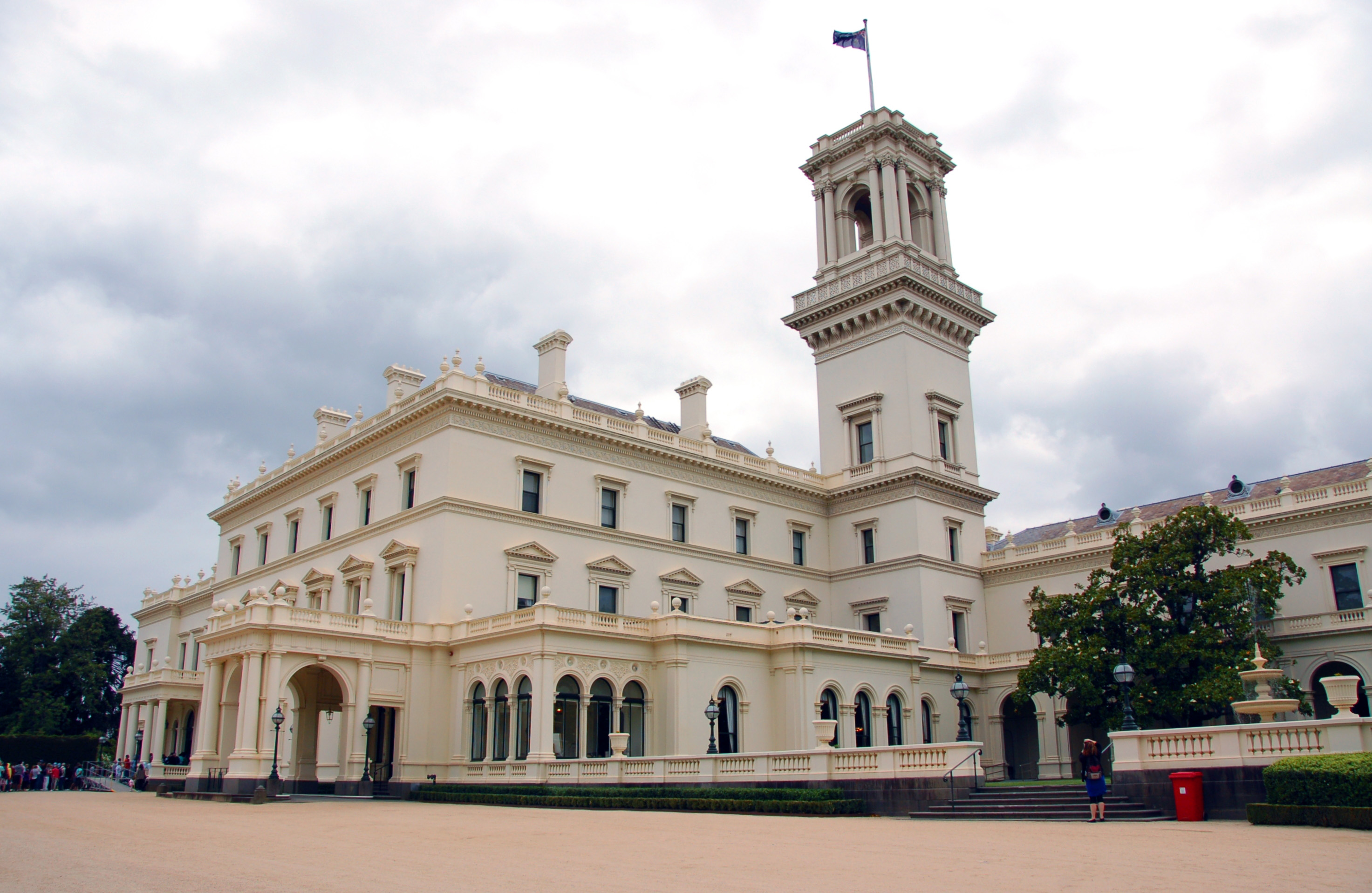 Government House, Melbourne